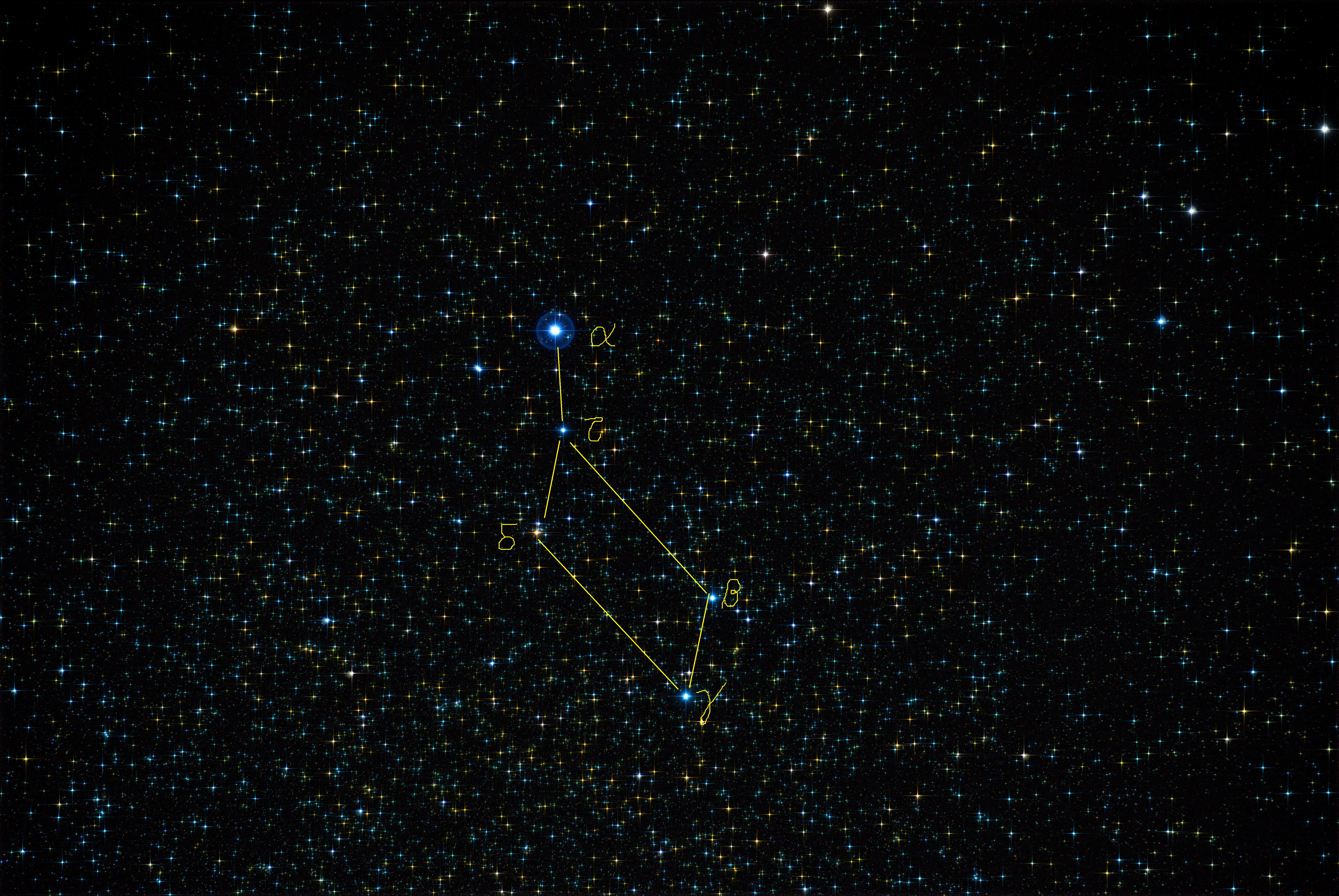 Photo of Lyra, made by stacking several input shots and post-processed in Photoshop.